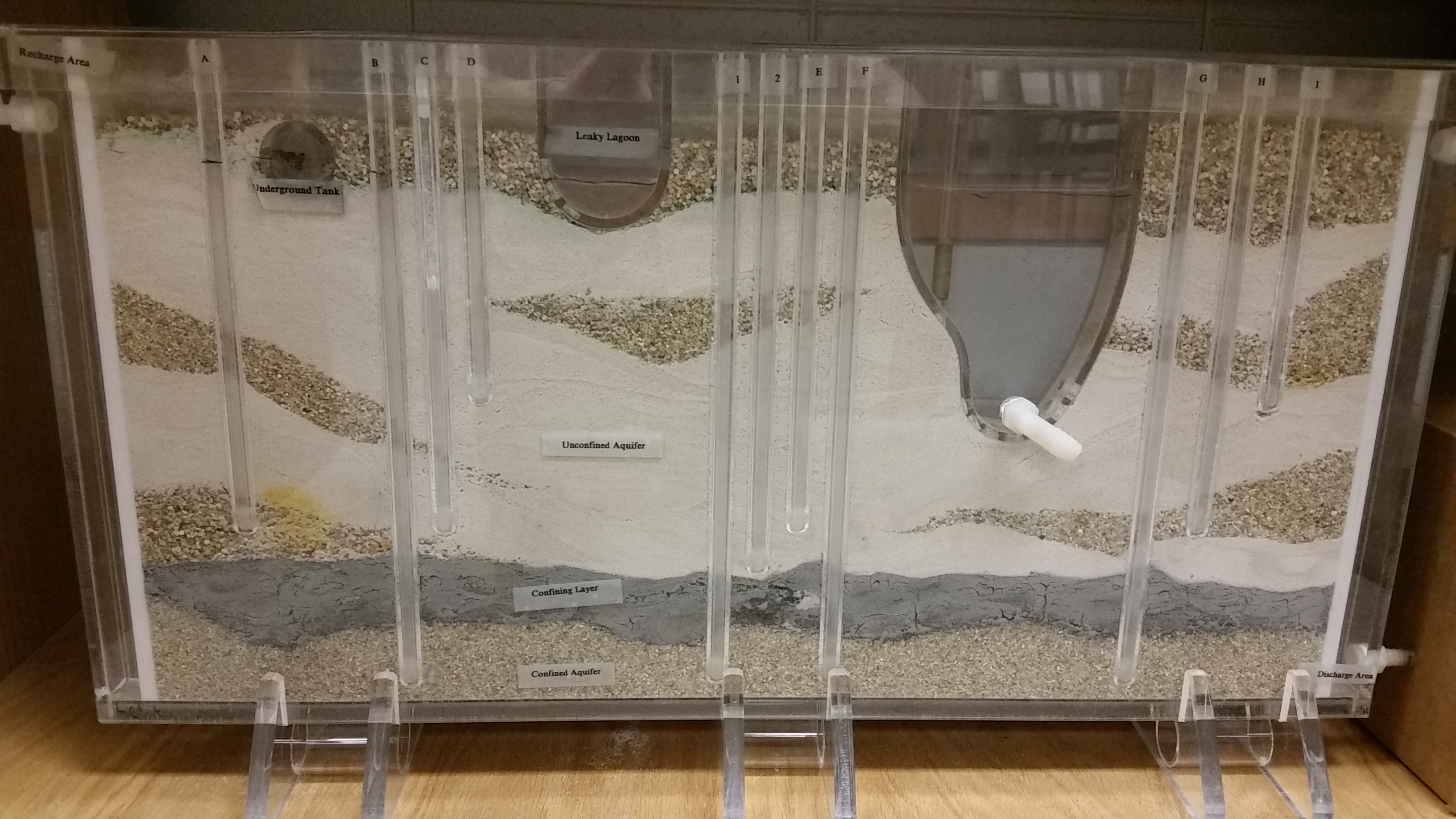 A tabletop sized aquifer model designed to visualize groundwater flow.